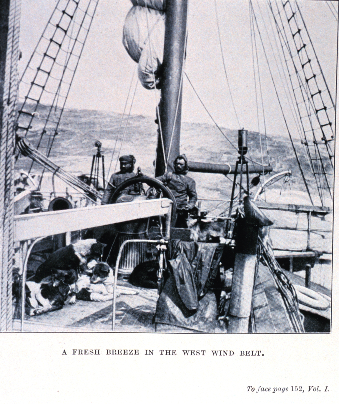 "A fresh breeze in the west wind belt"